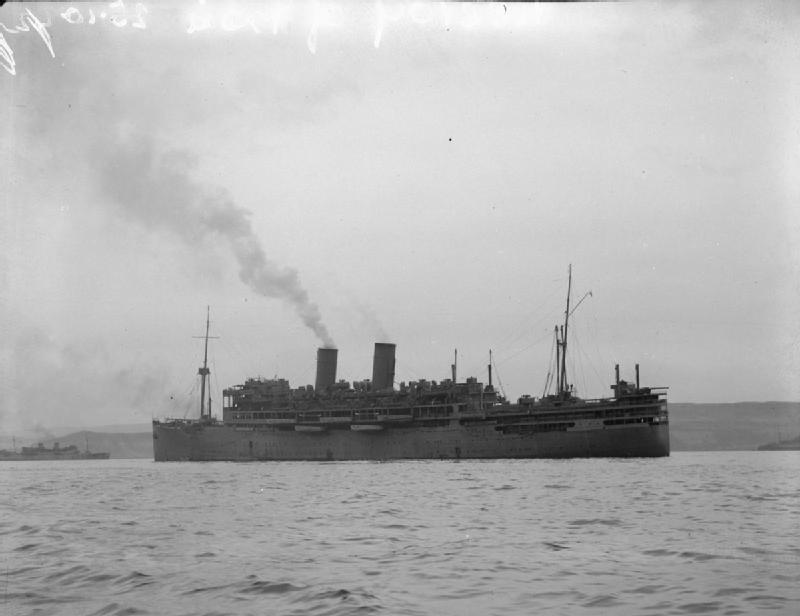 HMS Viceroy of India Underway in the Clyde.